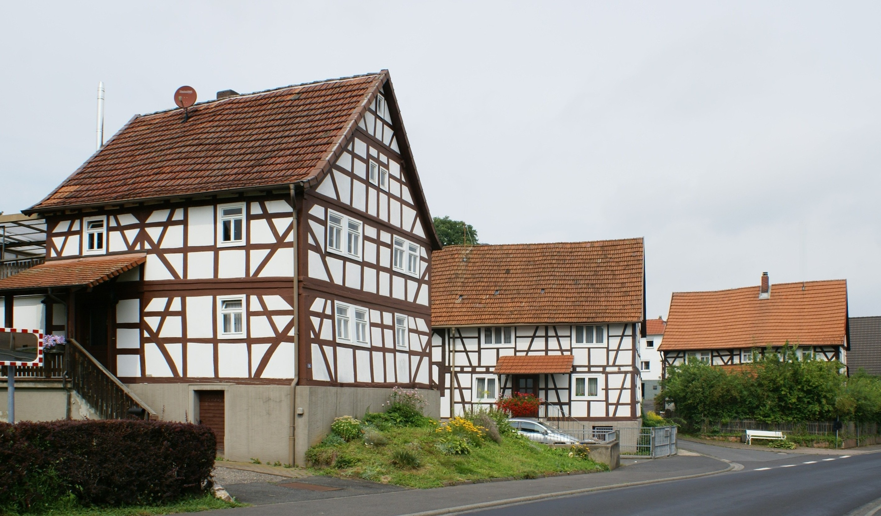 Krombach: This group of three well preserved half-timbered houses are located at the Hauptstraße